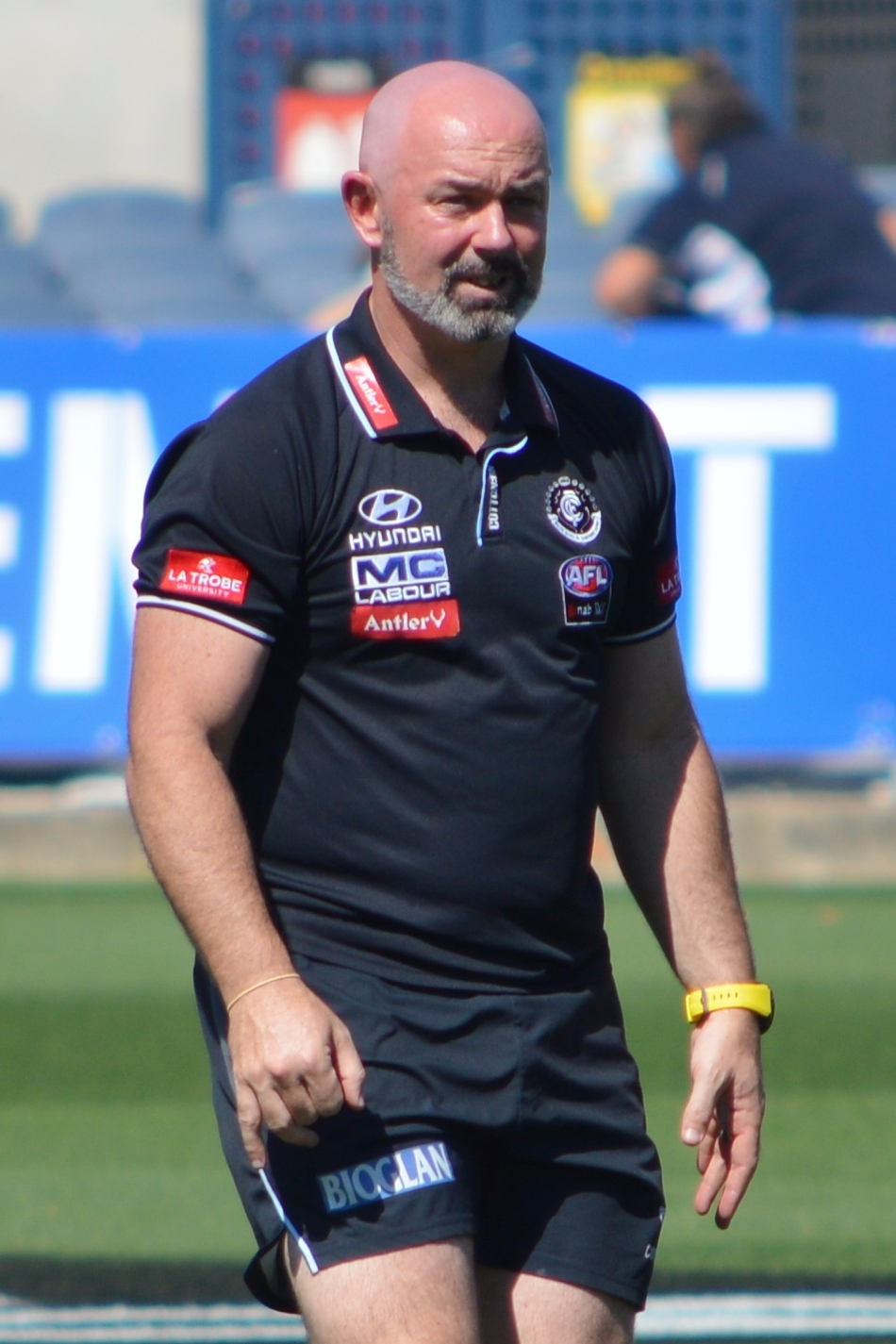 Daniel Harford coaching Carlton during a preliminary final against Fremantle at Ikon Park in March 2019.